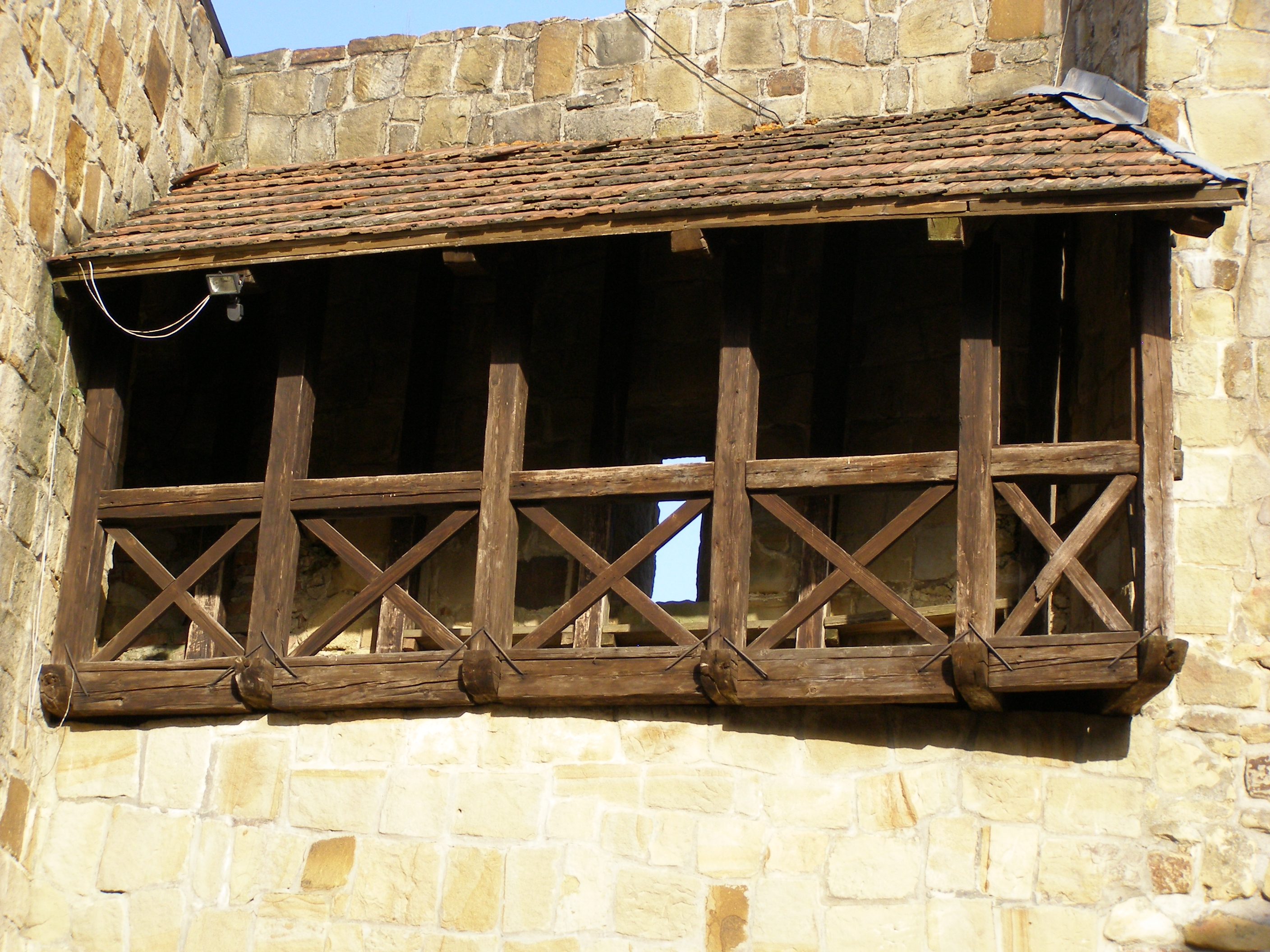 Odrzykoń - ruins of the Kamieniec castle